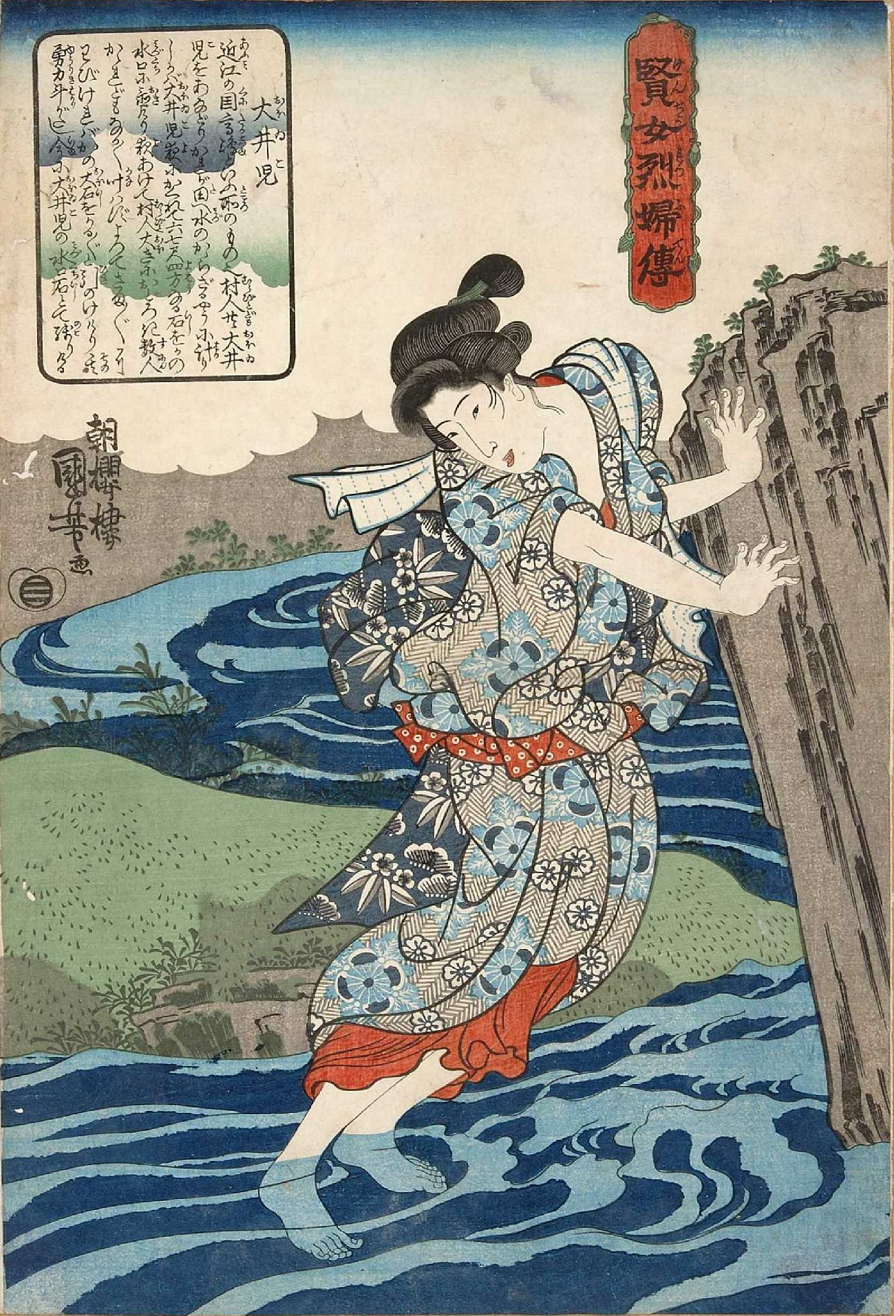 "Biographies of Wise Women and Virtuous Wives, Ōiko". Ōiko moving a huge rock to affect water irrigation.